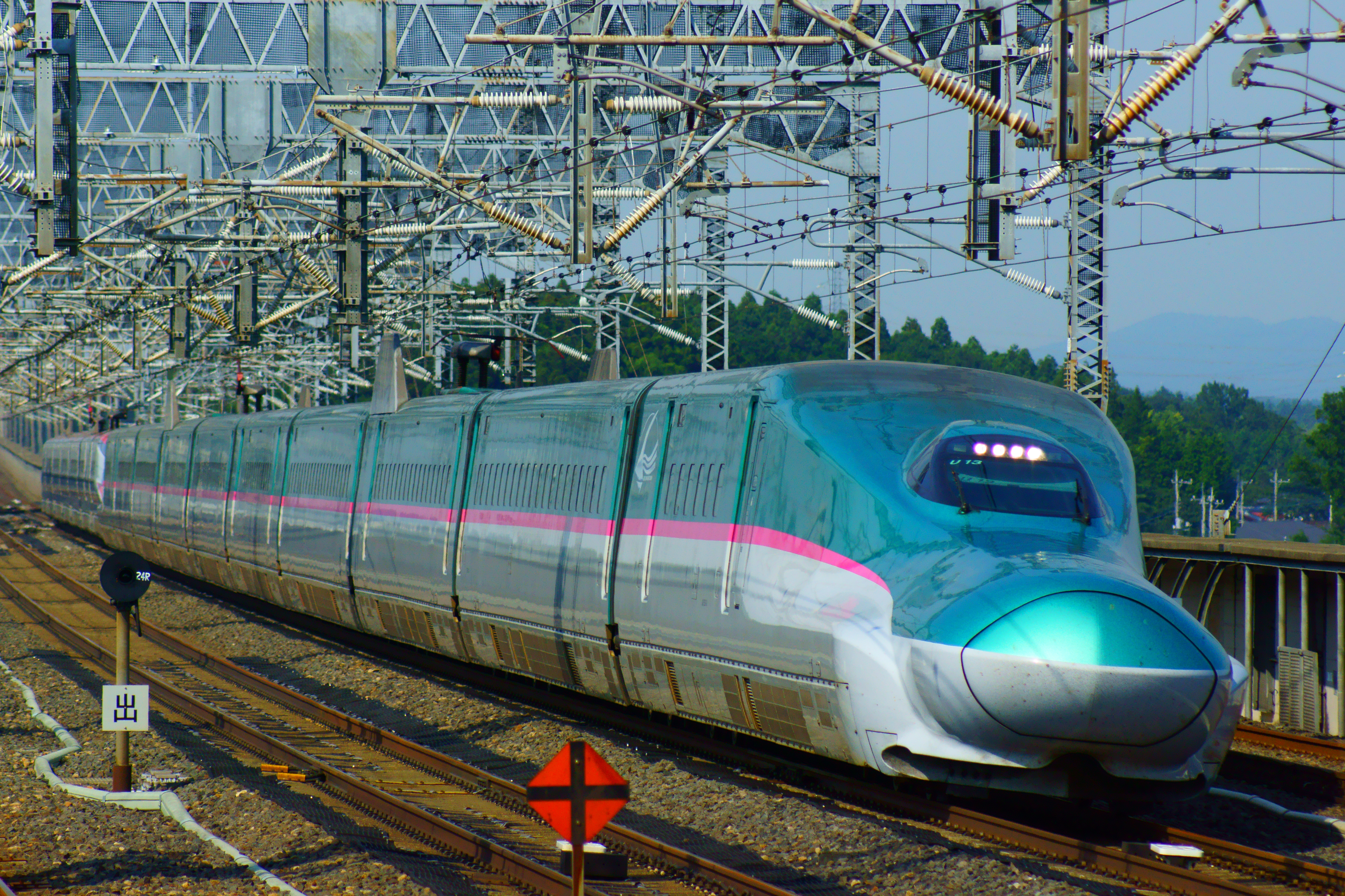 JR East E5 series shinkansen U13 and an E6 series set pass Nasu-Shiobara Station on the Hayabusa/Komachi 20 service for Tokyo